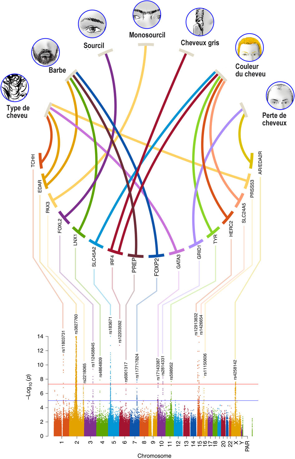 At the top are shown drawings illustrating the seven hair features examined in the CANDELA study sample. Thick lines connect these features with the candidate genes identified in regions with SNPs reaching genome-wide significant association (Table 1). At the bottom is shown a composite Manhattan plot displaying all significantly associated SNPs for the hair features examined. The rs number of the SNP with the smallest P value is shown at the top of each association peak (Table 1 index SNP).